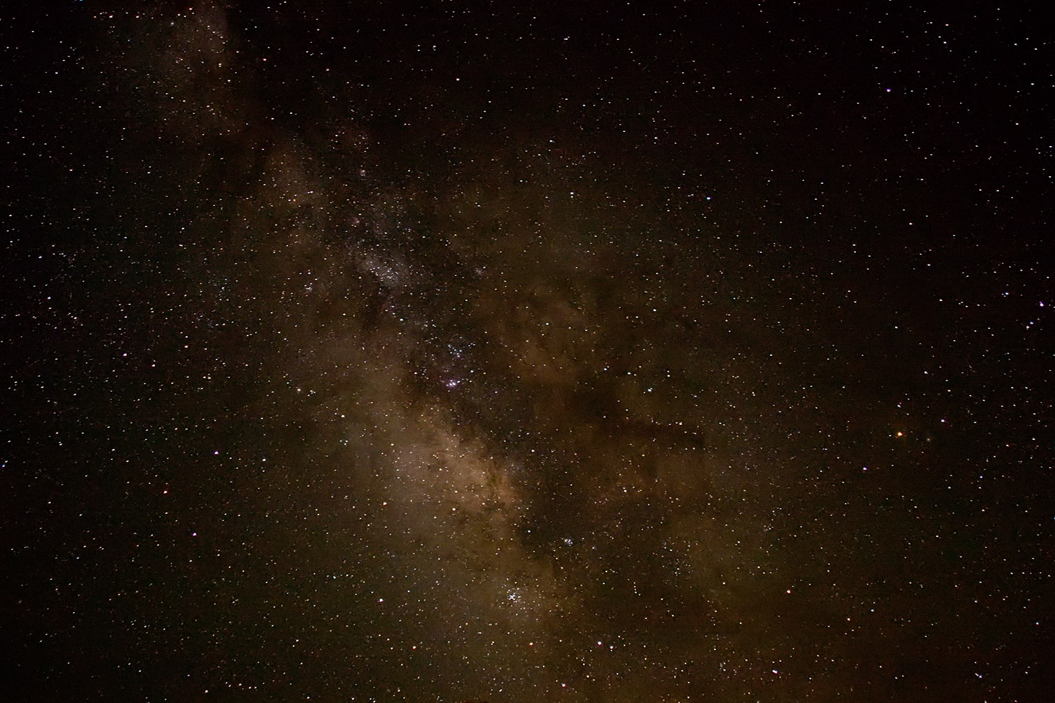 A view of the night sky near Sagittarius, enhanced to show better contrast and detail in the dust lanes.